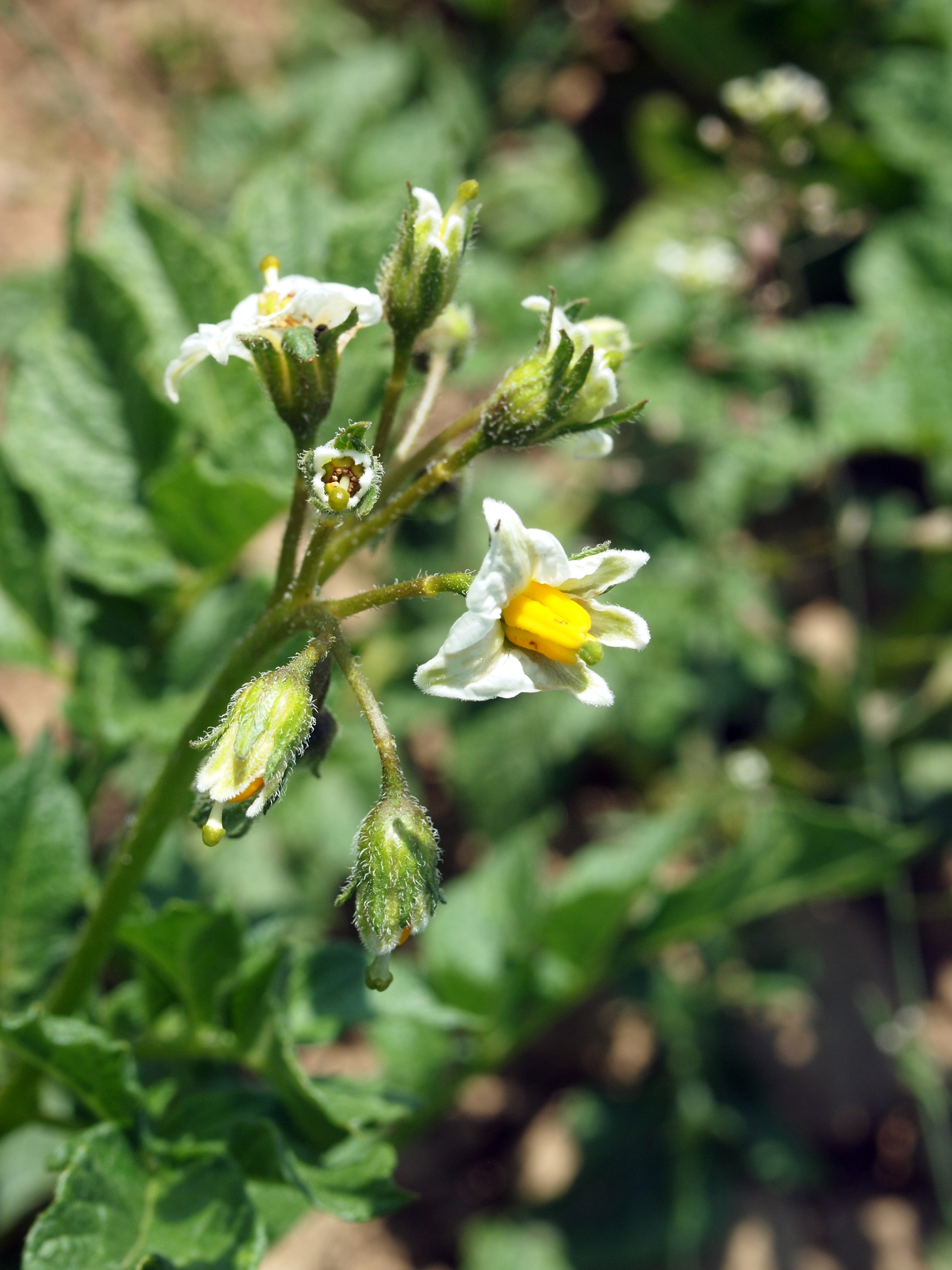 This potato-picture was taken by Ordercrazy with permission of Christian Müller from Aletshofen, municipality of Ettringen, Germany.